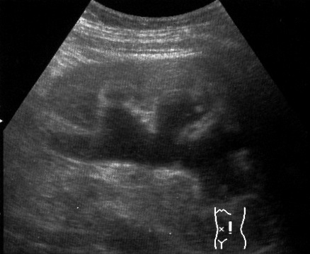 Ultrasonographic picture taken from a patient with left ureteral stone with hydronephrosis, created in Taiwan